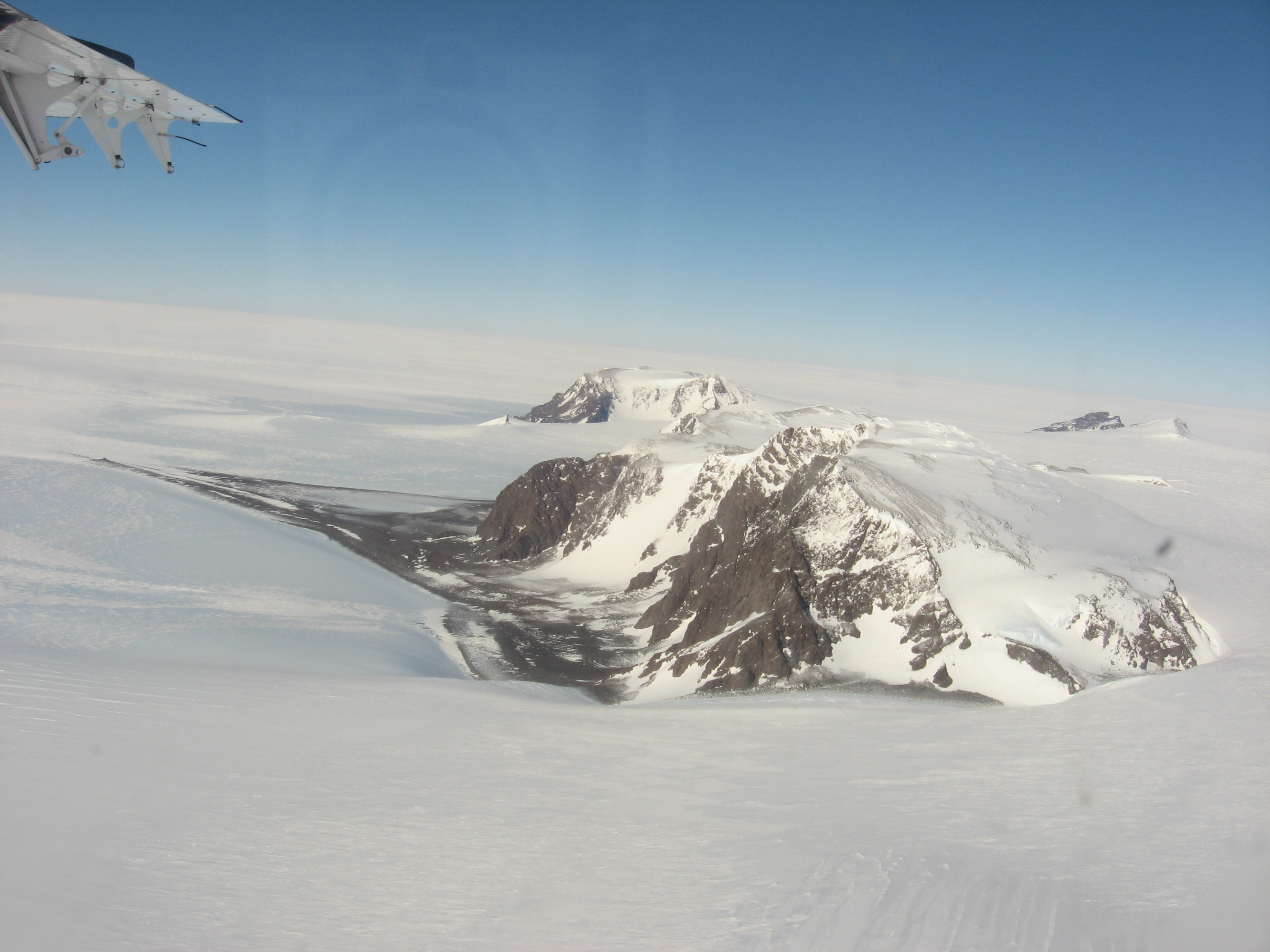 Taken by Richard Laronde